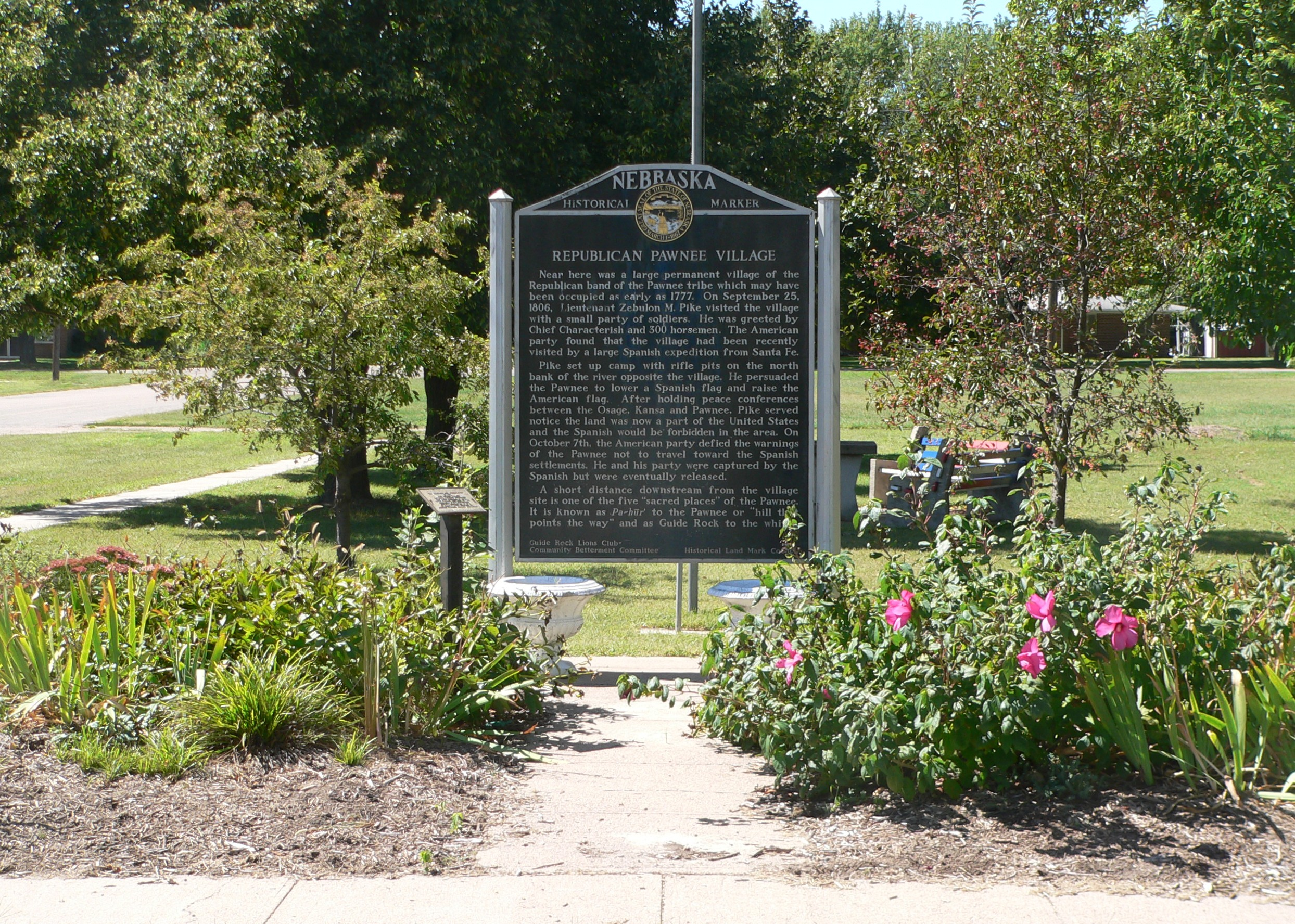 Nebraska state historical marker at northwest corner of State Street and University Street (Nebraska Highway 78 in northern Guide Rock, Nebraska. The marker commemorates the nearby Pike-Pawnee Village Site, a village of the Republican Pawnee visited by Zebulon Pike in 1806.